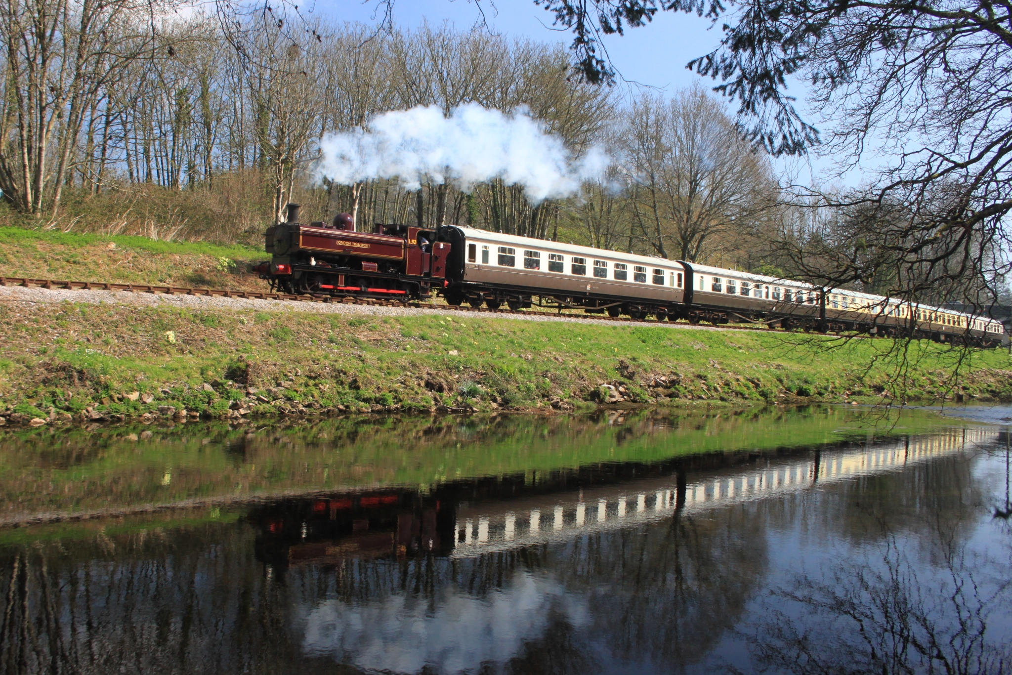 Former London Transport pannier tank L92 heads towards Buckfastleigh on the South Devon Railway. It is beside the River Dart near Riverford Bridge.